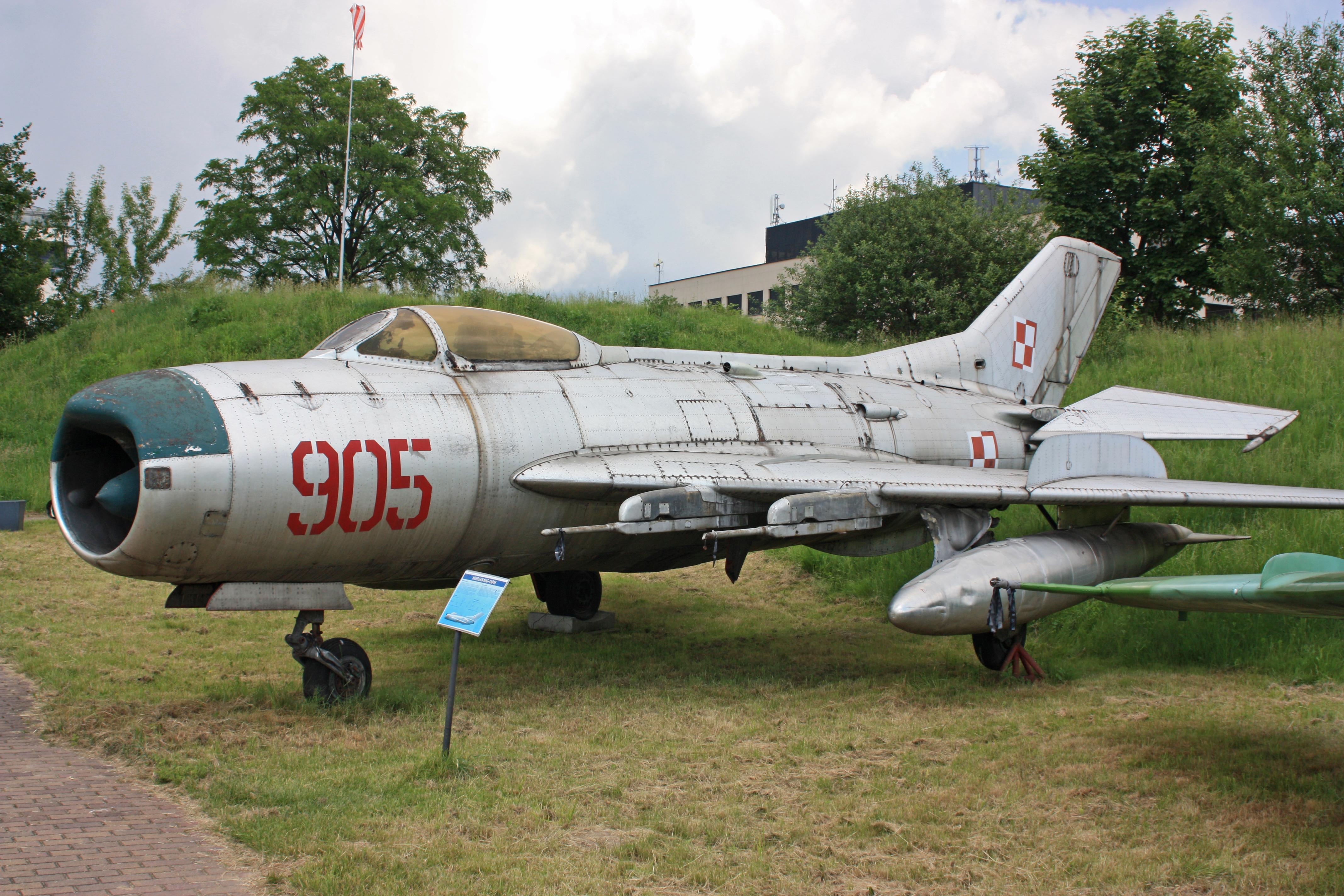 MiG-19PM, side number "905", serial number N650210905, located at the Aviation Museum in Krakow